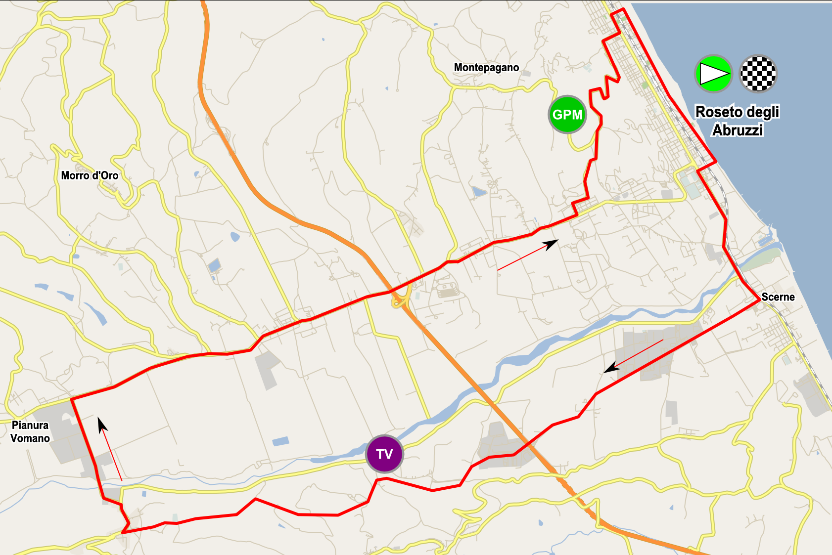 Map of stage 6 of Giro donne 2017.